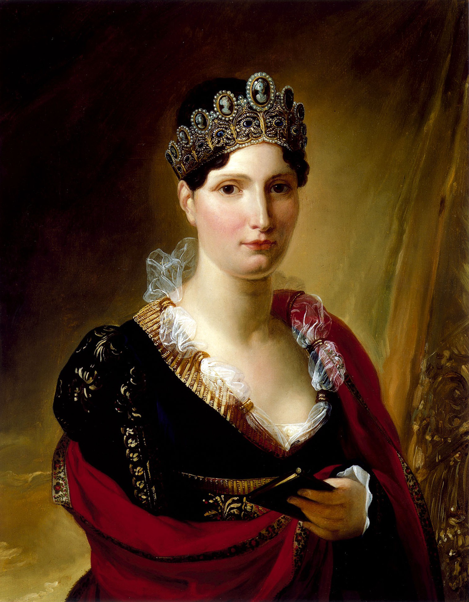 Portrait of Elisa Baciocchi (1777-1820)